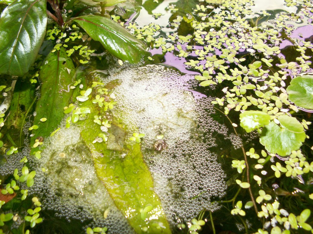 Trichogaster lalius bubble nest